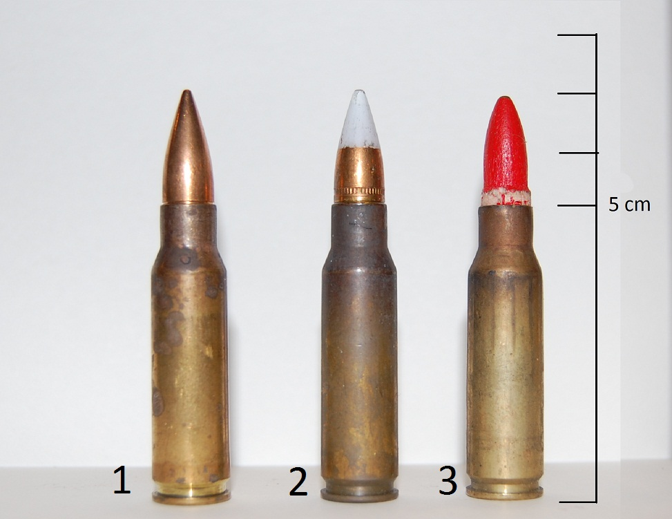 7.62×51mm NATO 1-Ball 2-Tracer 3-Blank.